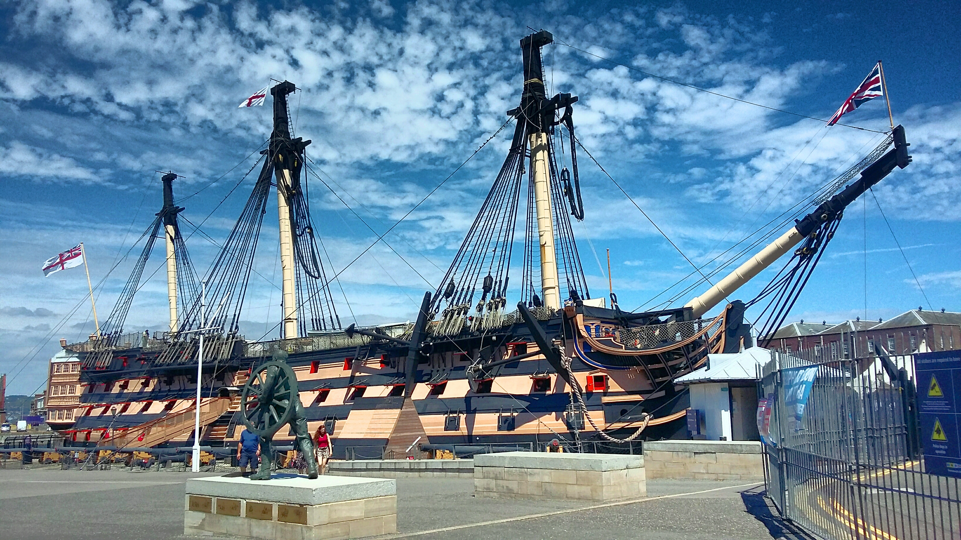 HMS Victory's starboard side.